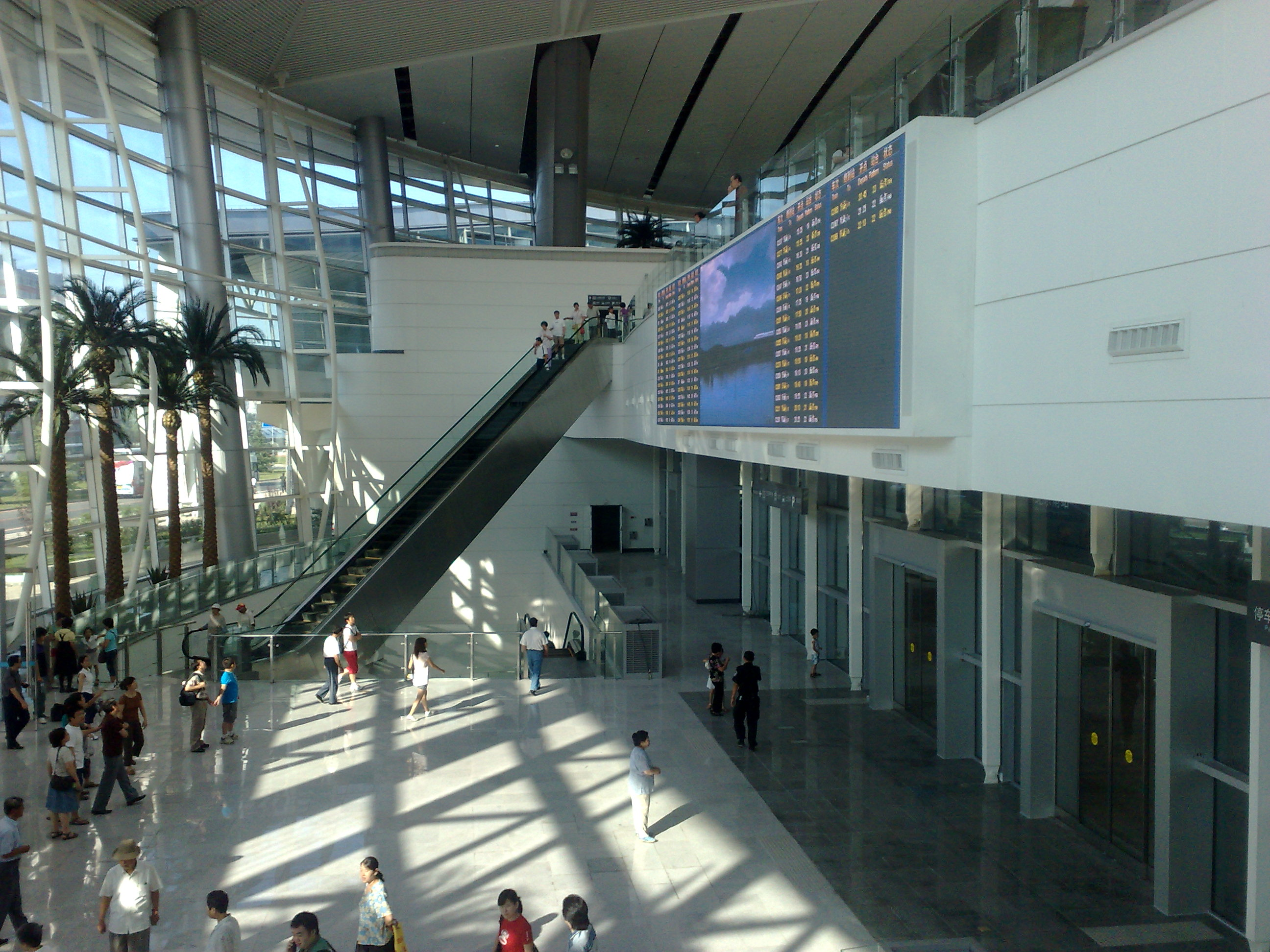 Beijing South Railway Station